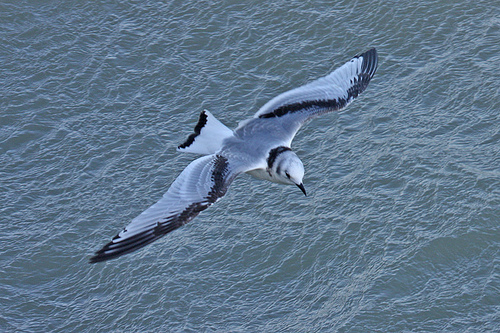 Black-legged Kittiwake, 1st winter, 2008-02-03, Dover (GB)